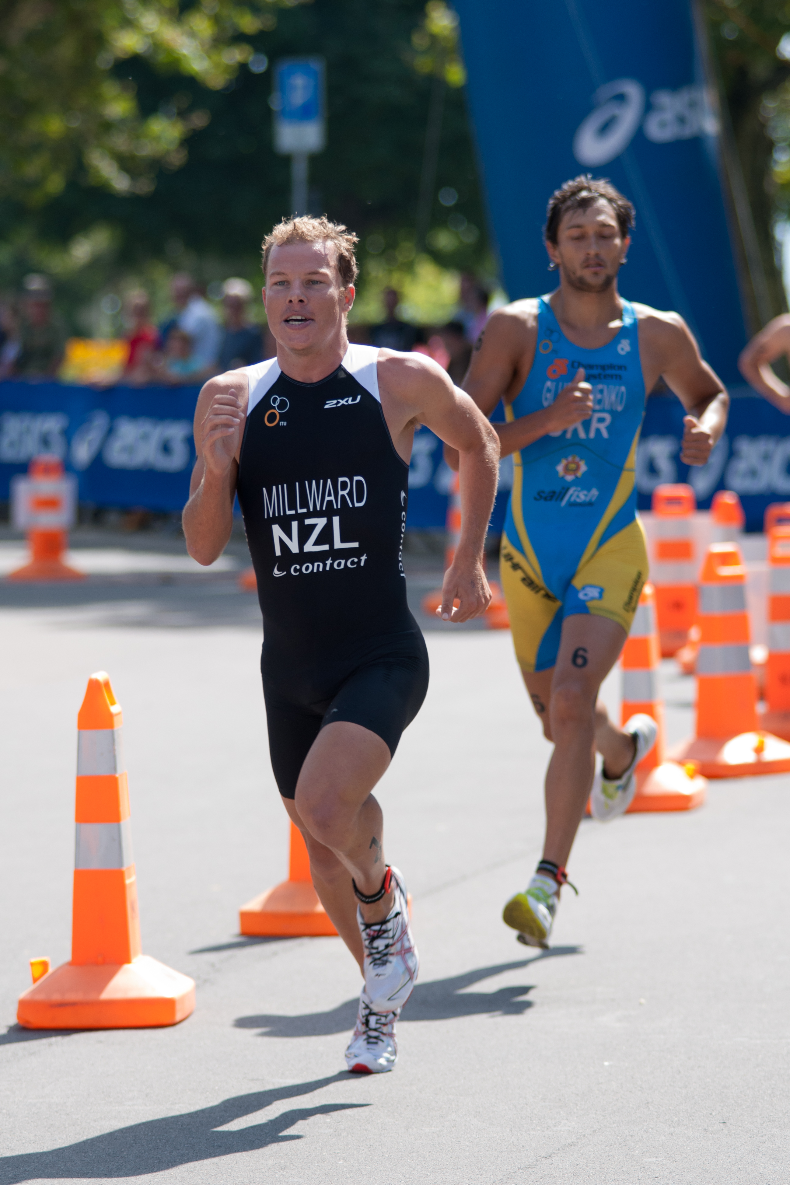 2010 ITU Sprint Distance Triathlon World Championships, Lausanne, Switzerland.